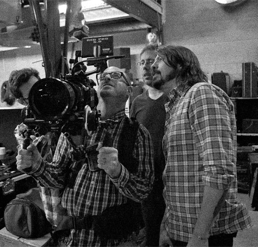 Image of Dave Grohl directing the feature length documentary film Sound City, which covers the human element of music, the lost art of analog recording, and the history of the Los Angeles recording studio Sound City Studios.